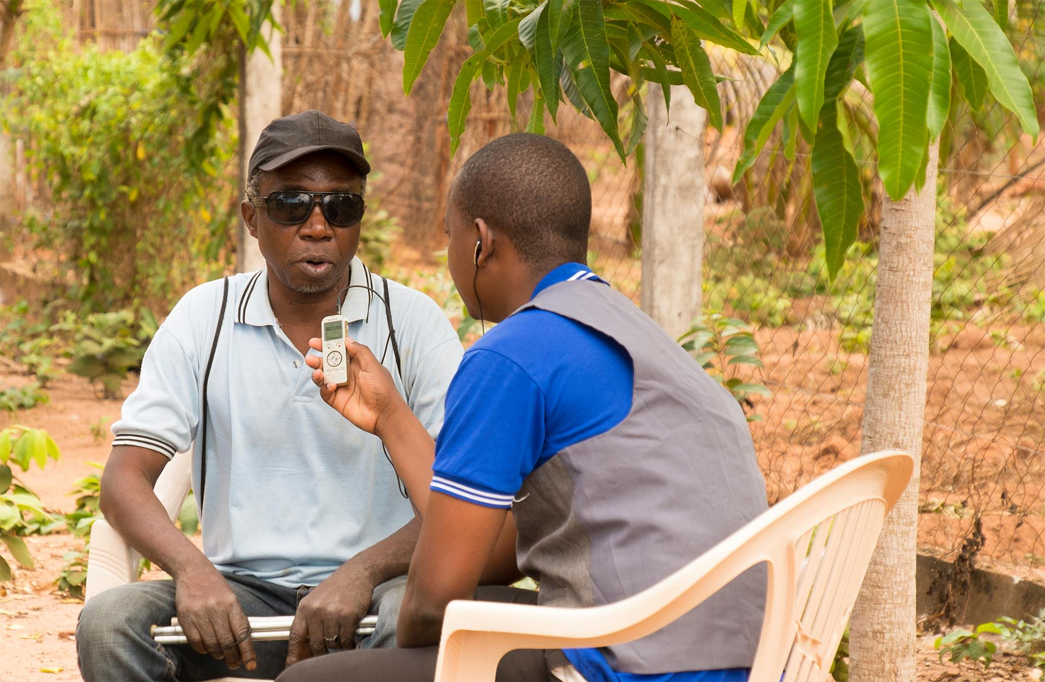 This is an image of "African people at work" from Tanzania